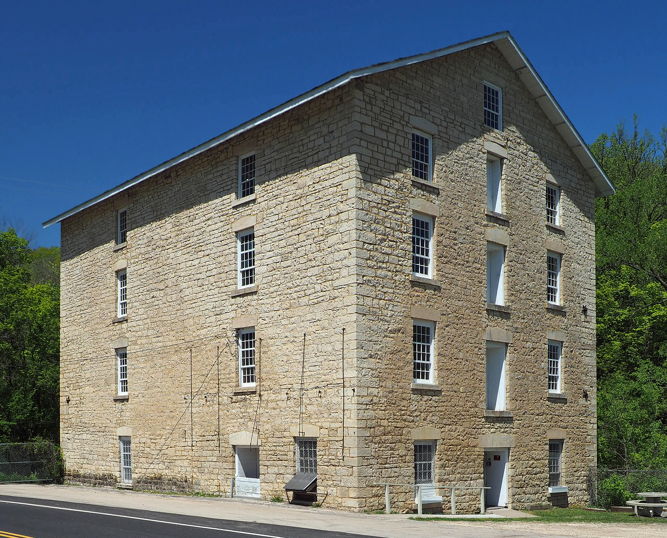 Pickwick Mill, 24813 County Rd 7, Pickwick, Minnesota, USA. Viewed from the southeast.